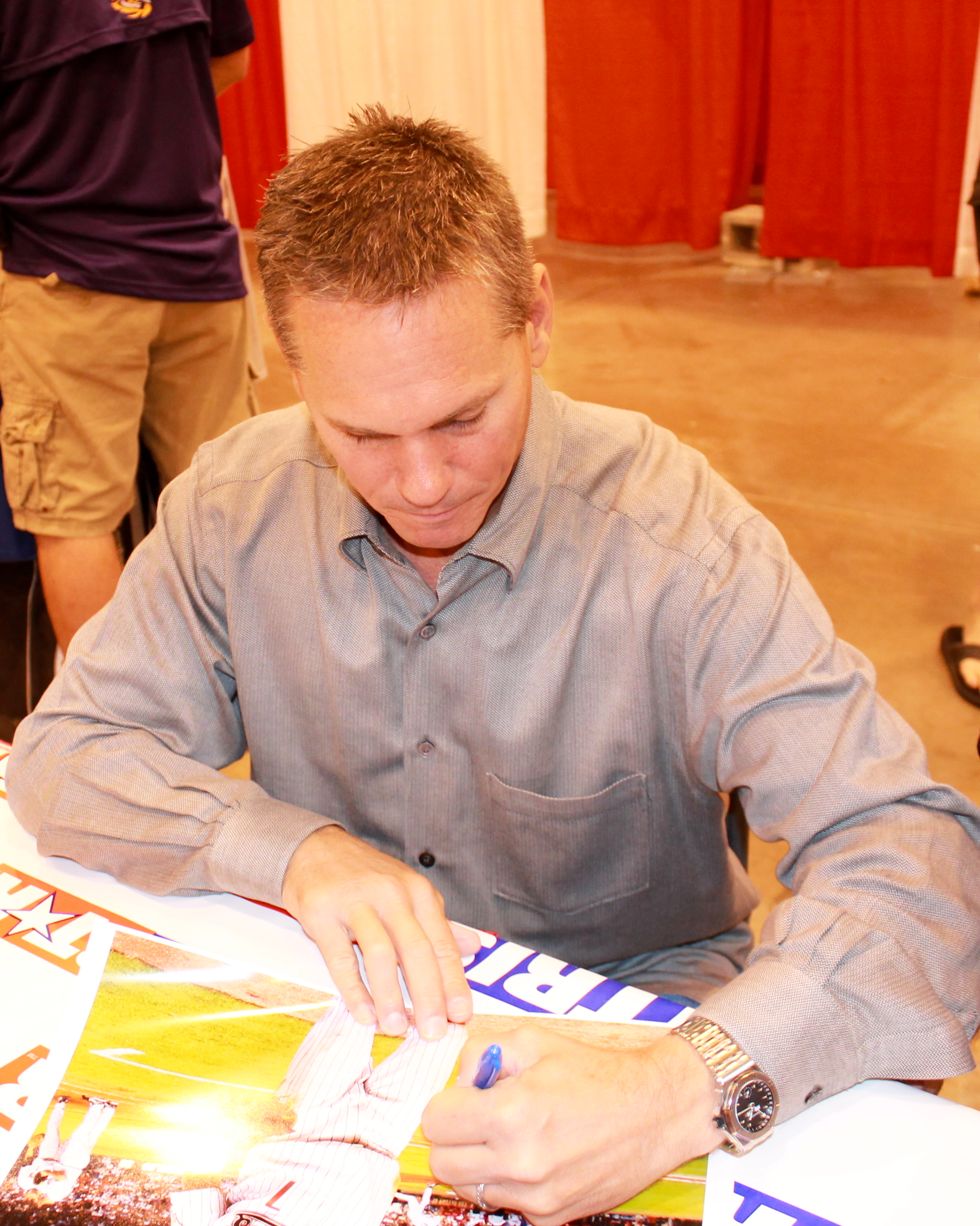 Former Major League Baseball player Craig Biggio signs autographs at a Houston sports collectors show in 2013.